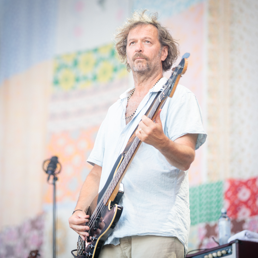 Lars Fredrik Beckstrøm with deLillos at the main stage at Stavernfestivalen. The concert was part of Stavernfestivalen and took place on 13. July 2018 in Stavern. Lineup:Lars Lillo-Stenberg (guitar and vocal)Lars Fredrik Beckstrøm (bass guitar)Øystein Paasche (drums)Lars Lundevall (guitar)